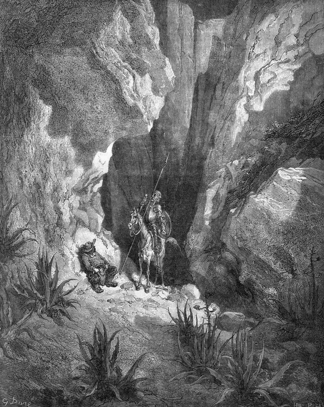 Don Quixote illustration by Gustave Dore.